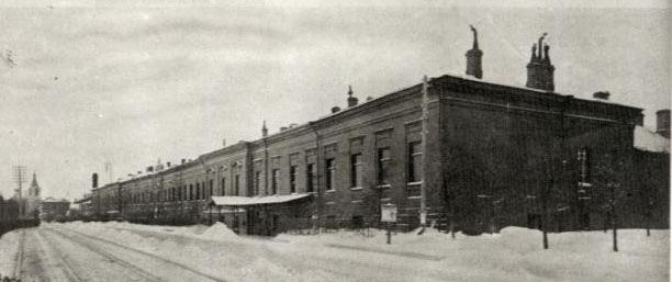 Imperial Porcelain Factory in 1904